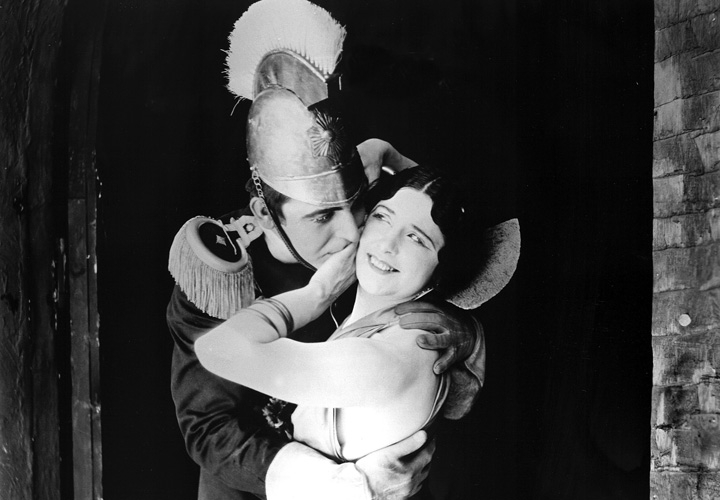 Wallace Reid and Geraldine Farrar in Carmen (1915).